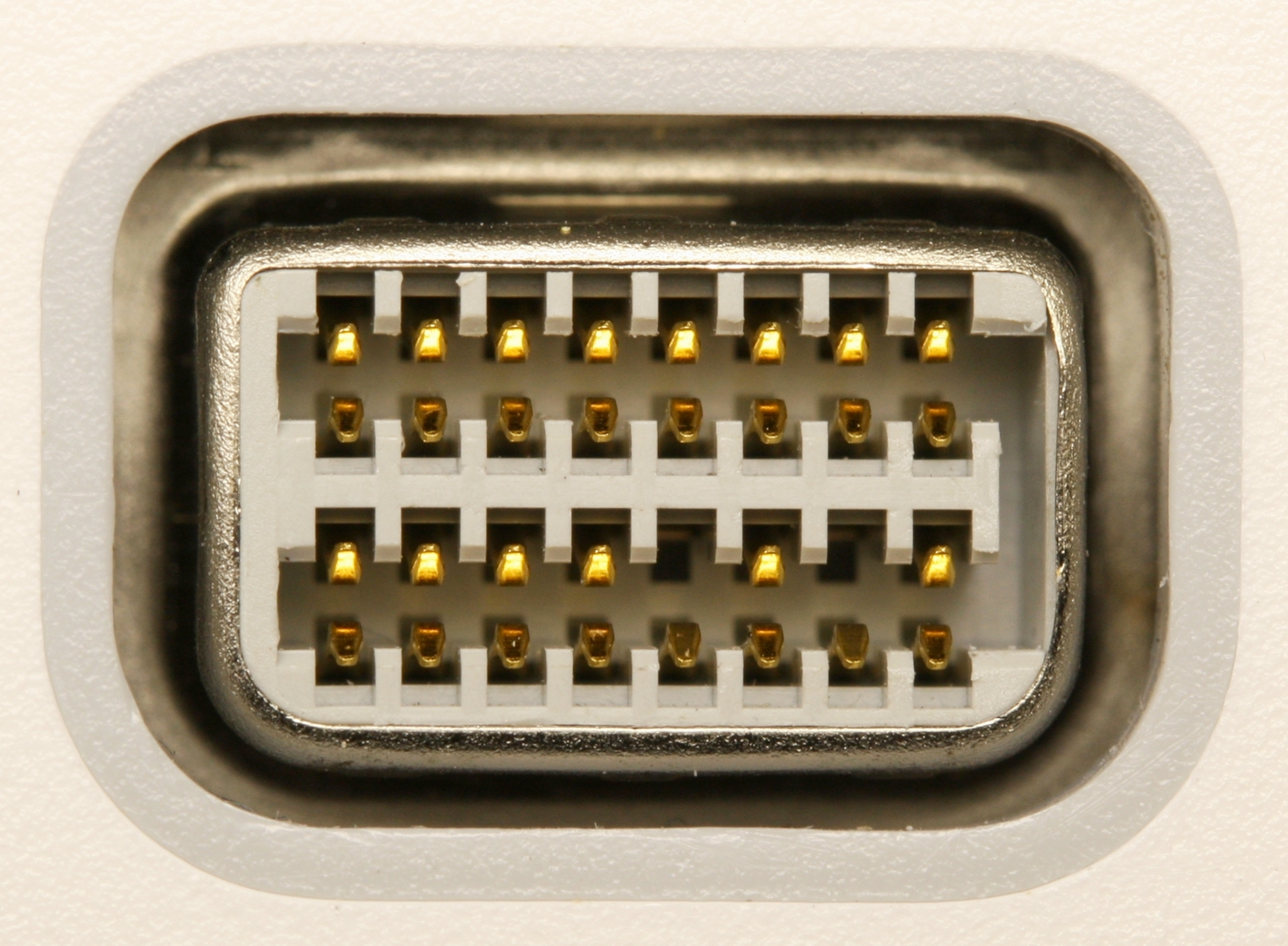 A female Mini-DVI connector